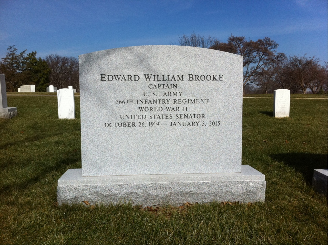 Grave of Edward Brooke at Arlington National Cemetery